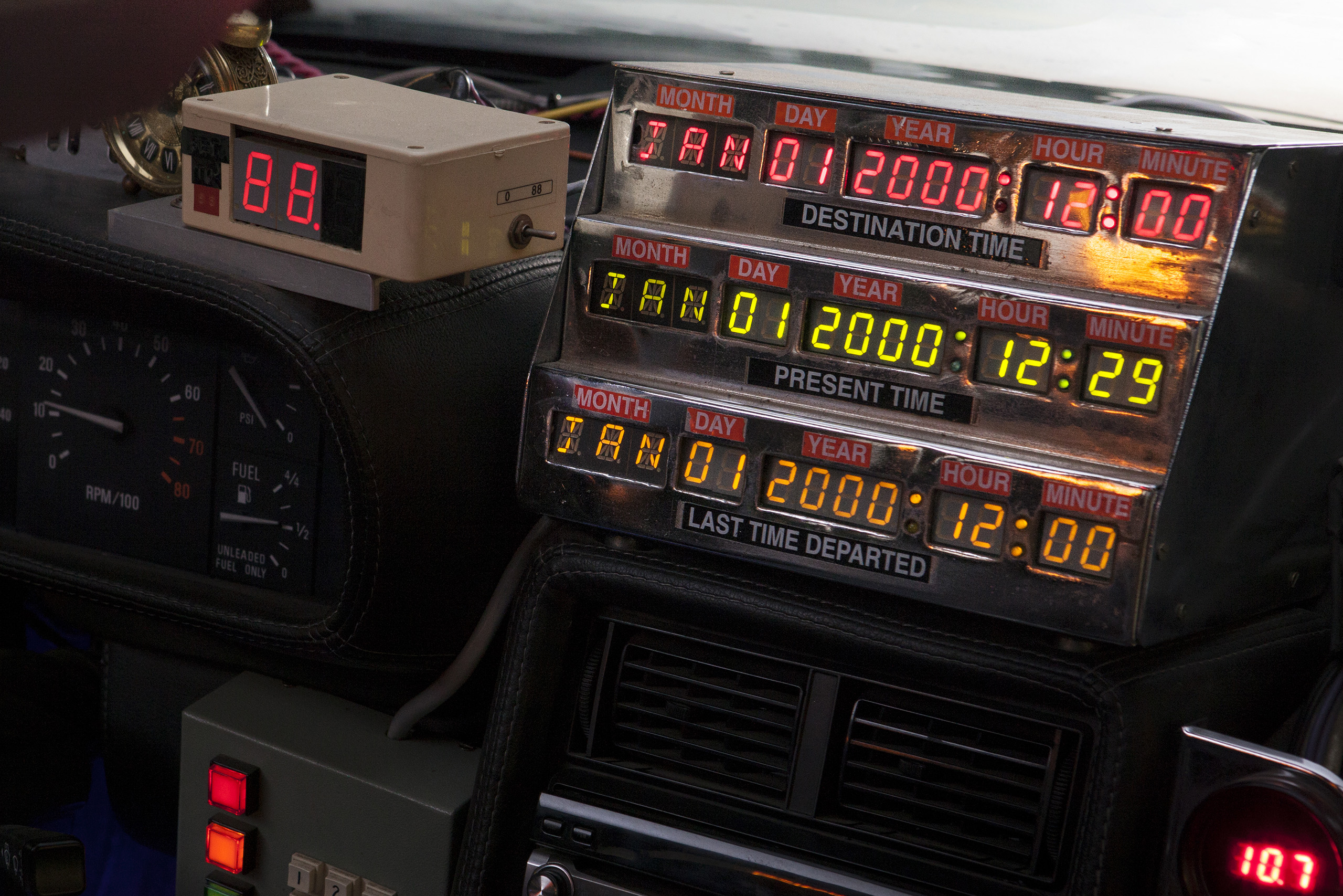 Back to the Future DeLorean Time Machine